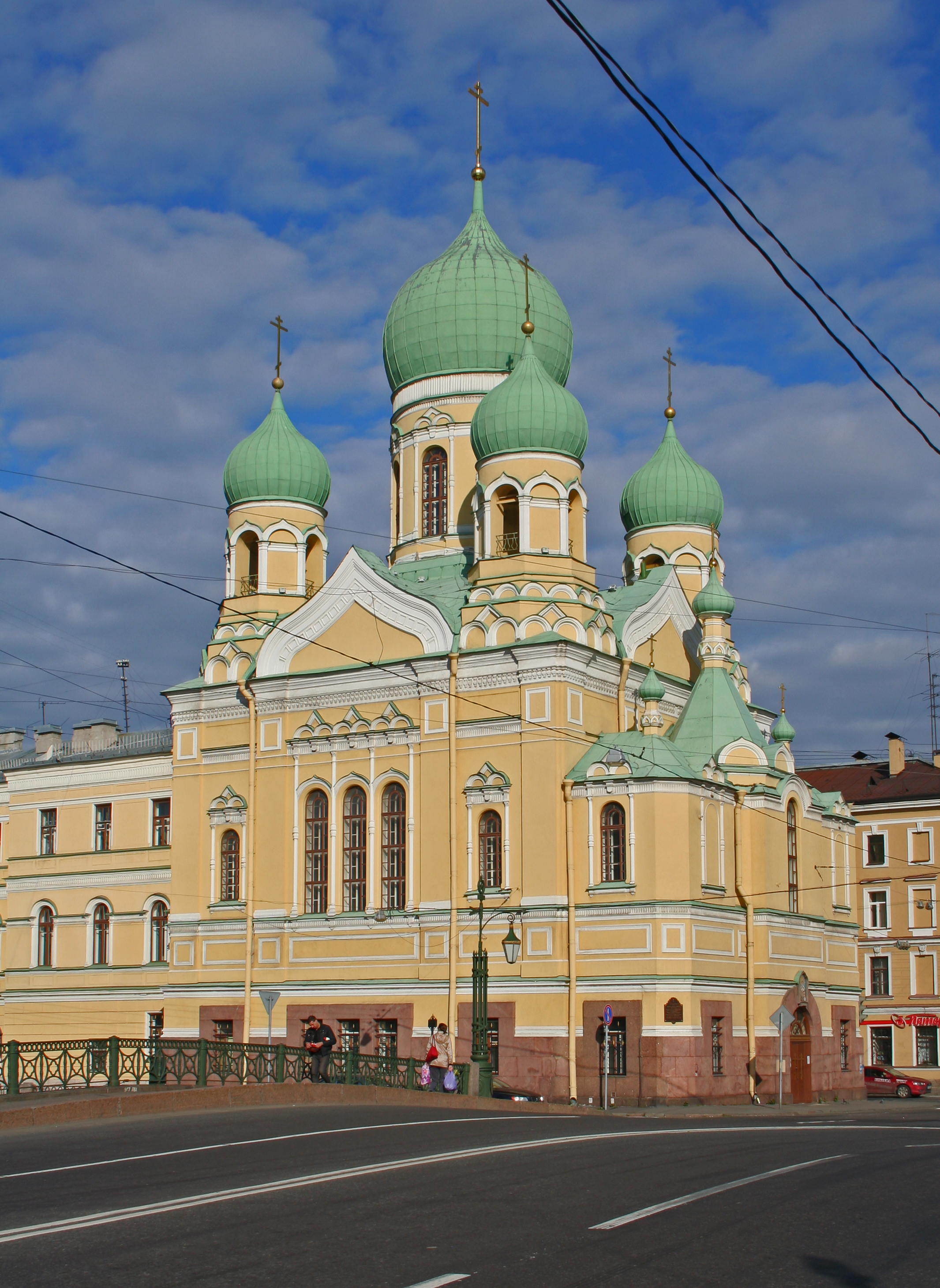 Saint Petersburg, Isidor church.